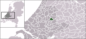 Location of Gouda